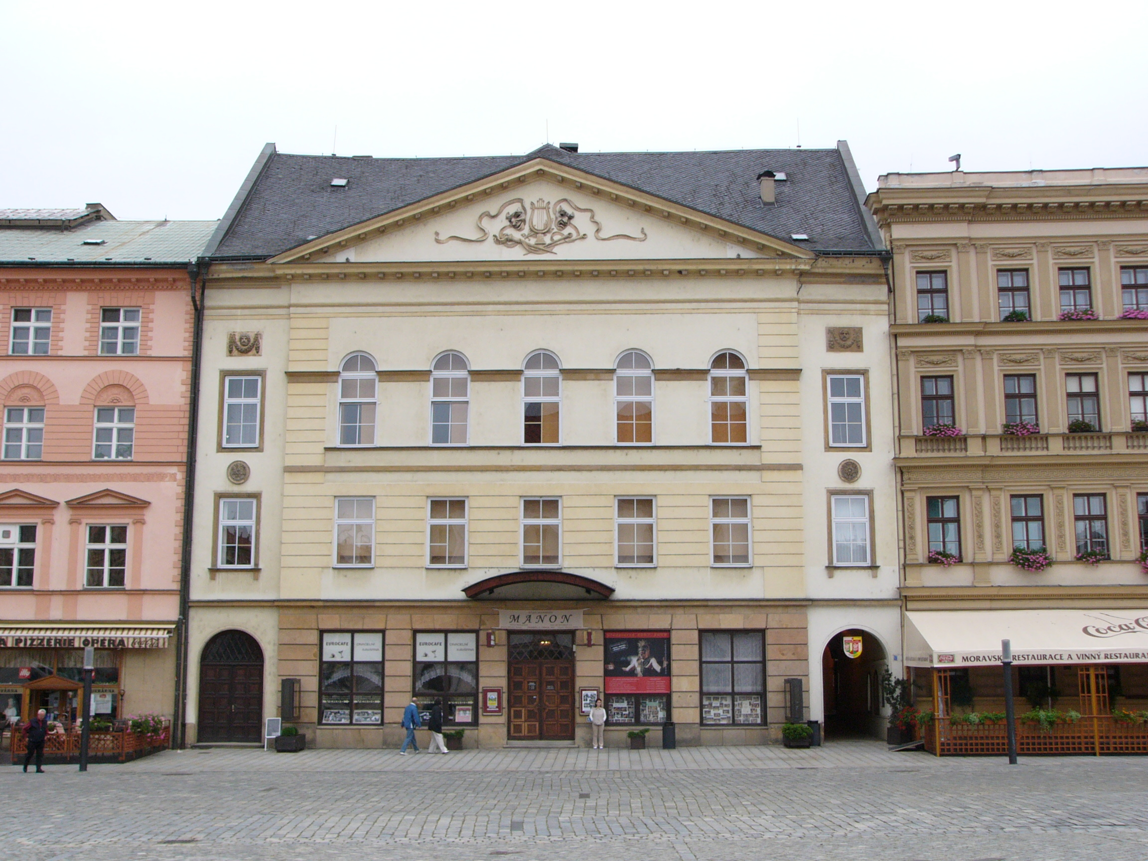 Moravian Theatre in Olomouc (Czech Republic).